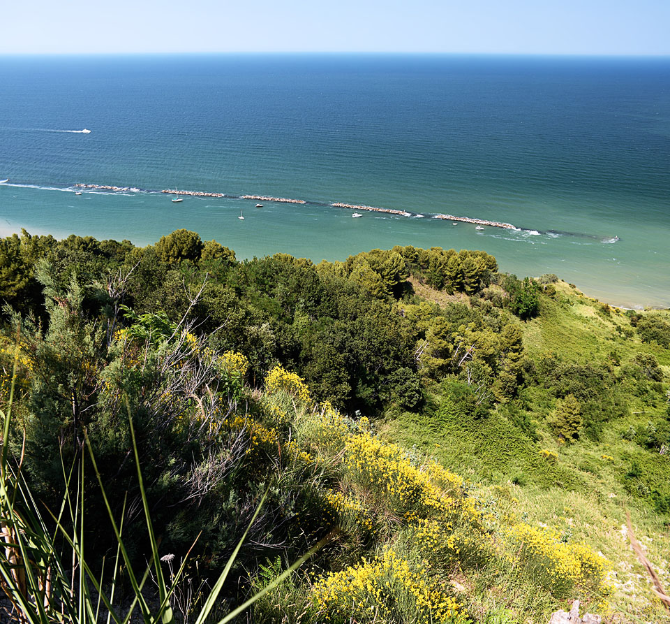 Monte San Bartolo Natural parc.